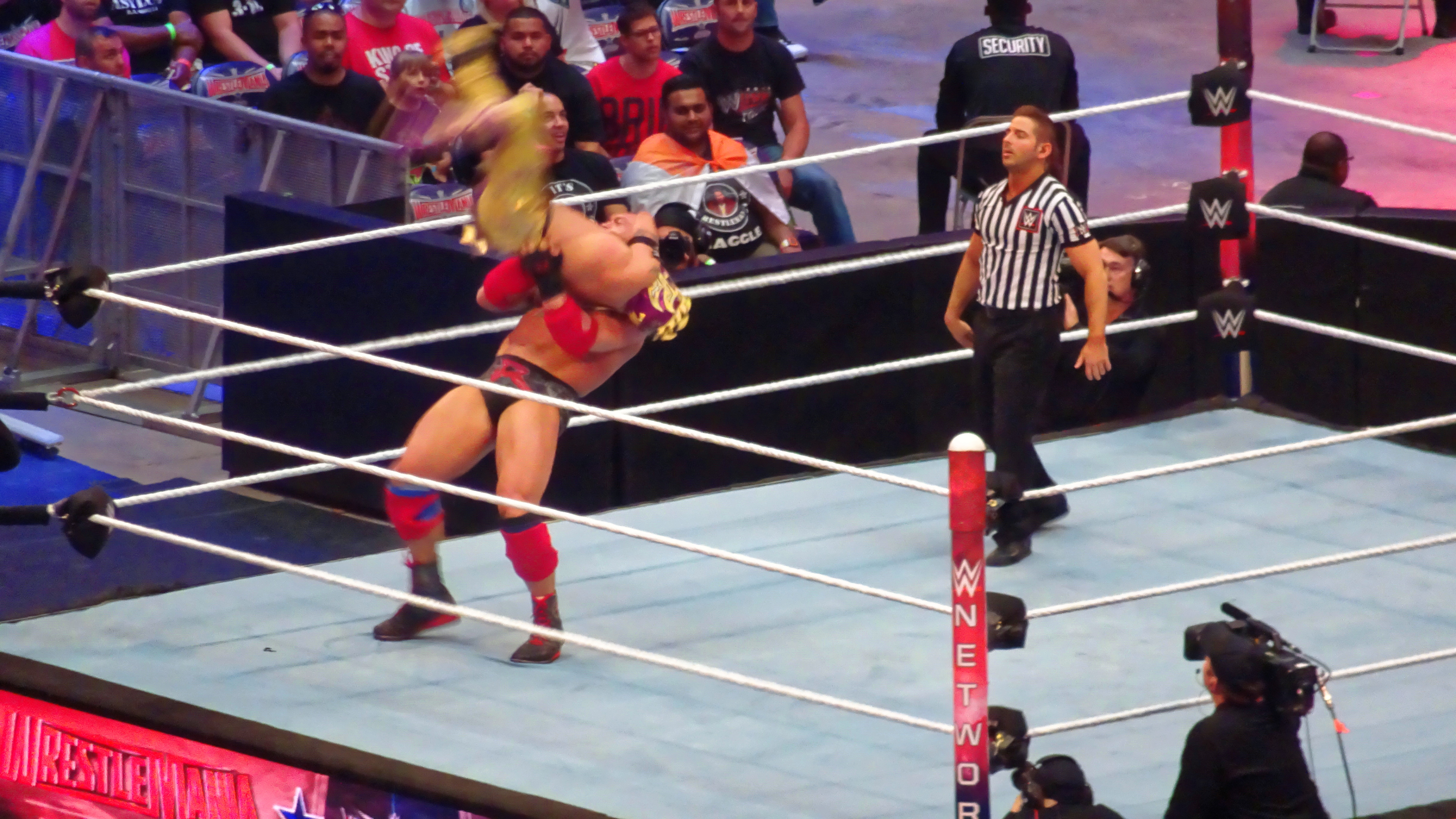 WrestleMania 32 was the thirty-second annual WrestleMania professional wrestling pay-per-view (PPV) event produced by WWE. It took place on April 3, 2016, at AT&T Stadium in Arlington, Texas. Twelve matches were contested on the card (with three matches occurring on the WrestleMania Kickoff pre-show - two airing live on the USA Network, which televised the second hour of the pre-show). Kalisto (c) def. (pin) Ryback (in 09:01) Type of match : dark For : WWE United States Championship Rating : *1/2